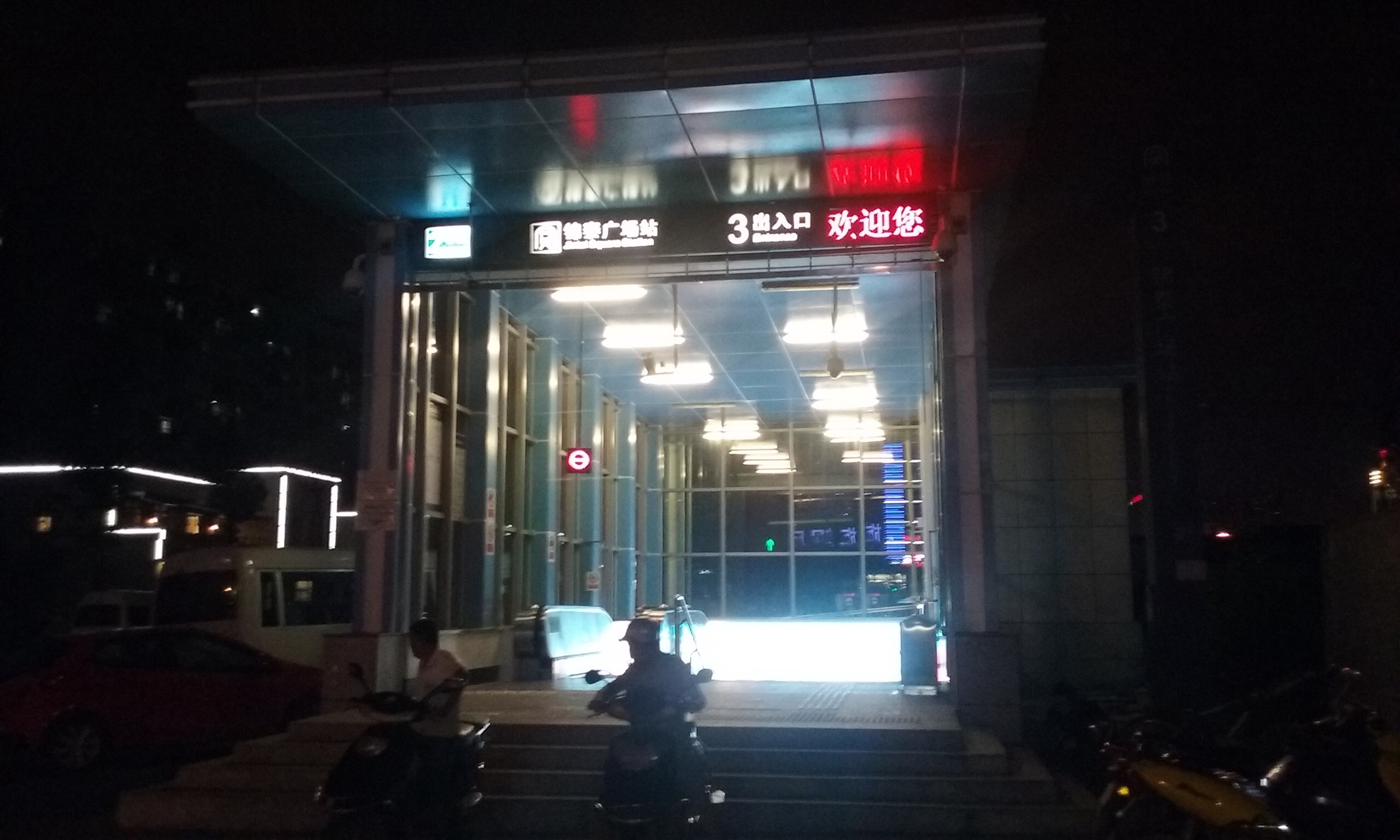 Entrance No.3 of Jintai Square Station